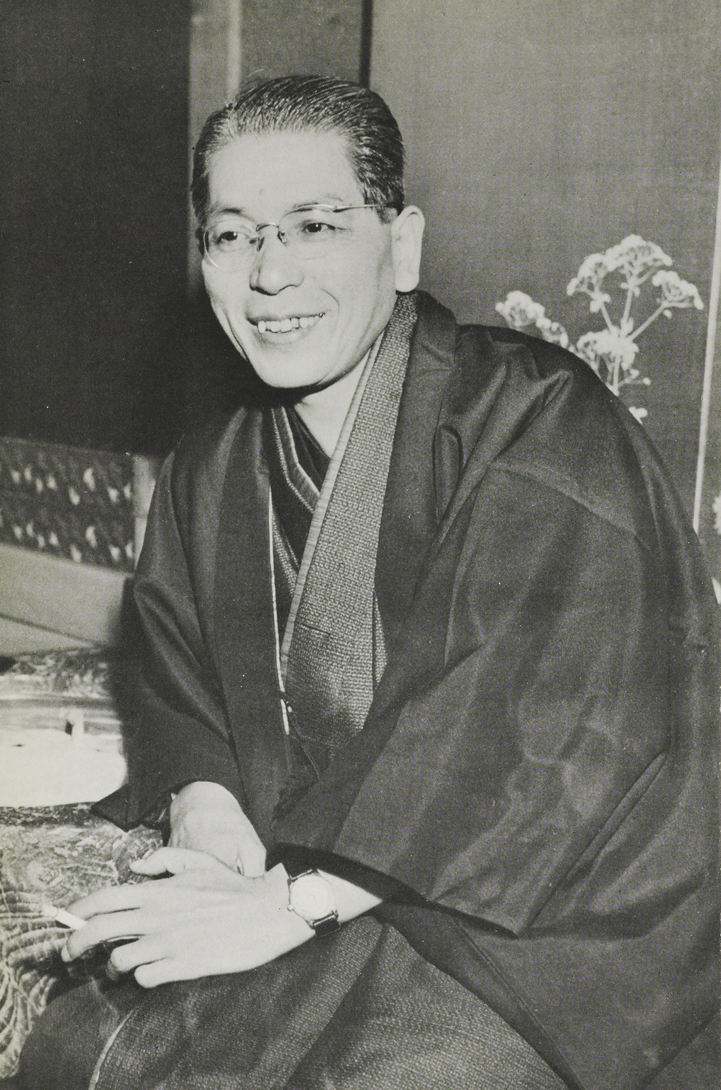 Portrait of Saito Noboru (斎藤昇, 1903 – 1972)